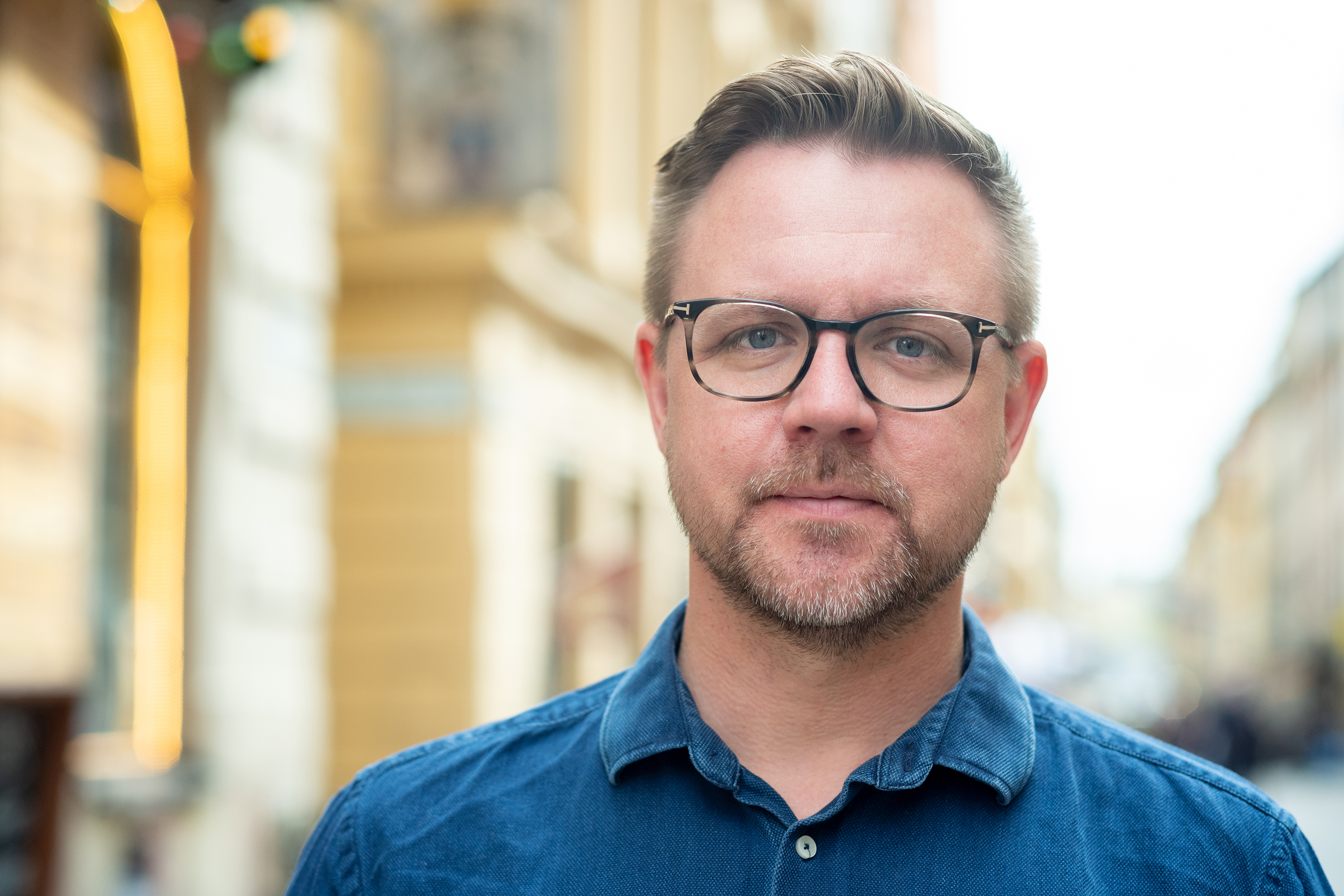 Member of the European Parliament for the Swedish Centre Party, Fredrick Federley.